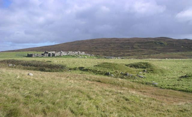 Vatster Burnt Mound Burnt Mound, on the east bank of the inflow burn to loch of Vatster.